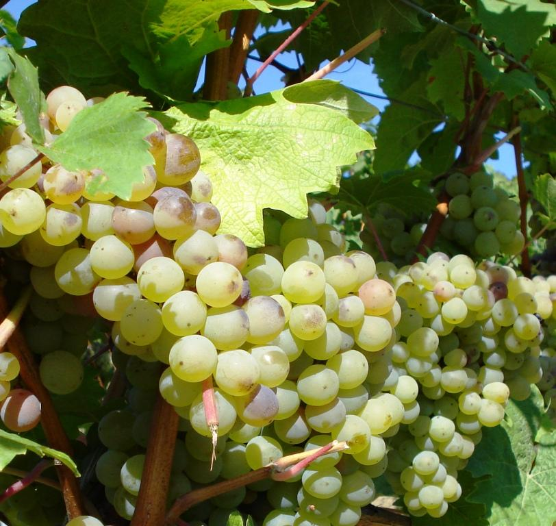 Grape of the variety Bacchus